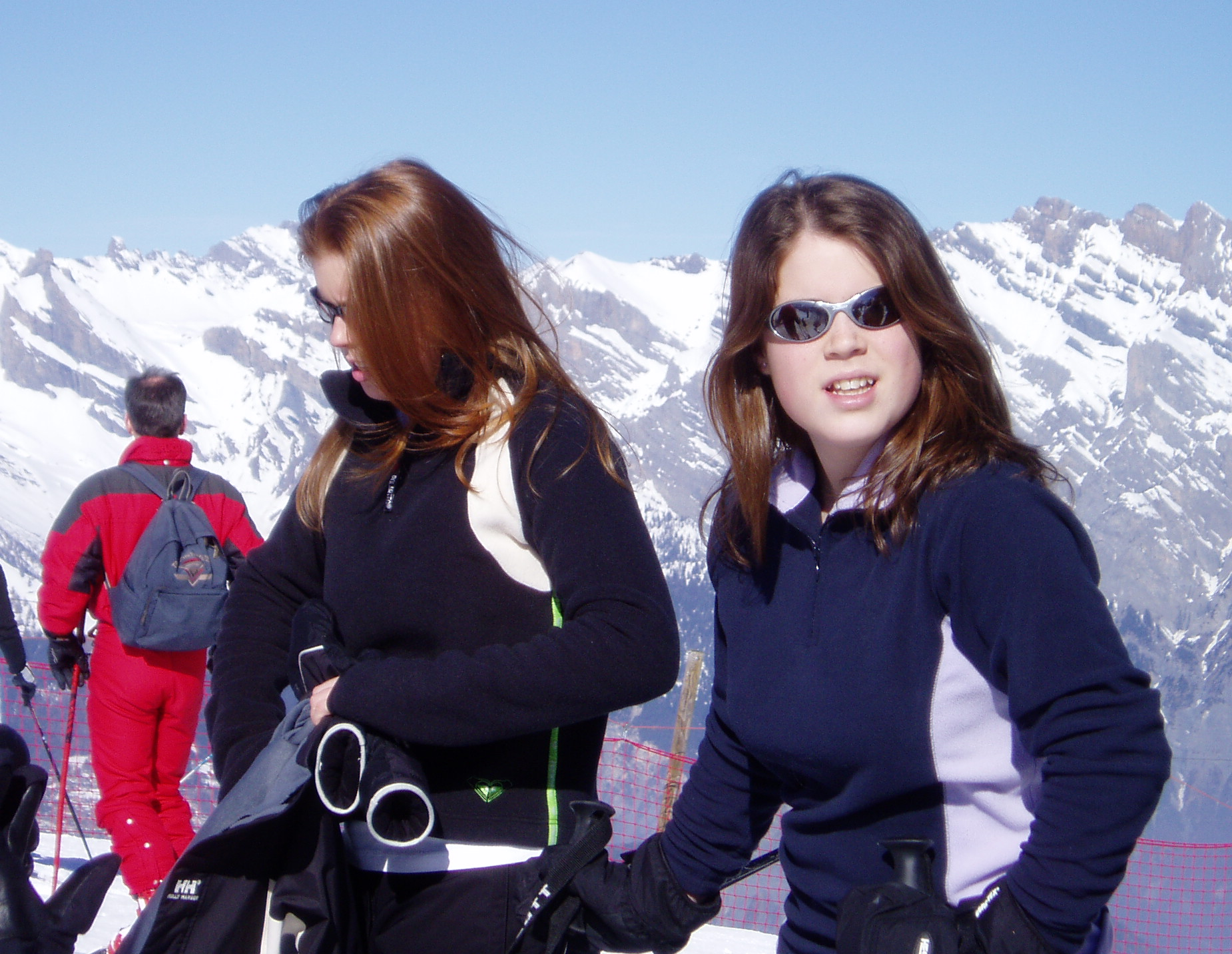 Princess Beatrice of York and Princess Eugenie of York skiing in Verbier, Switzerland